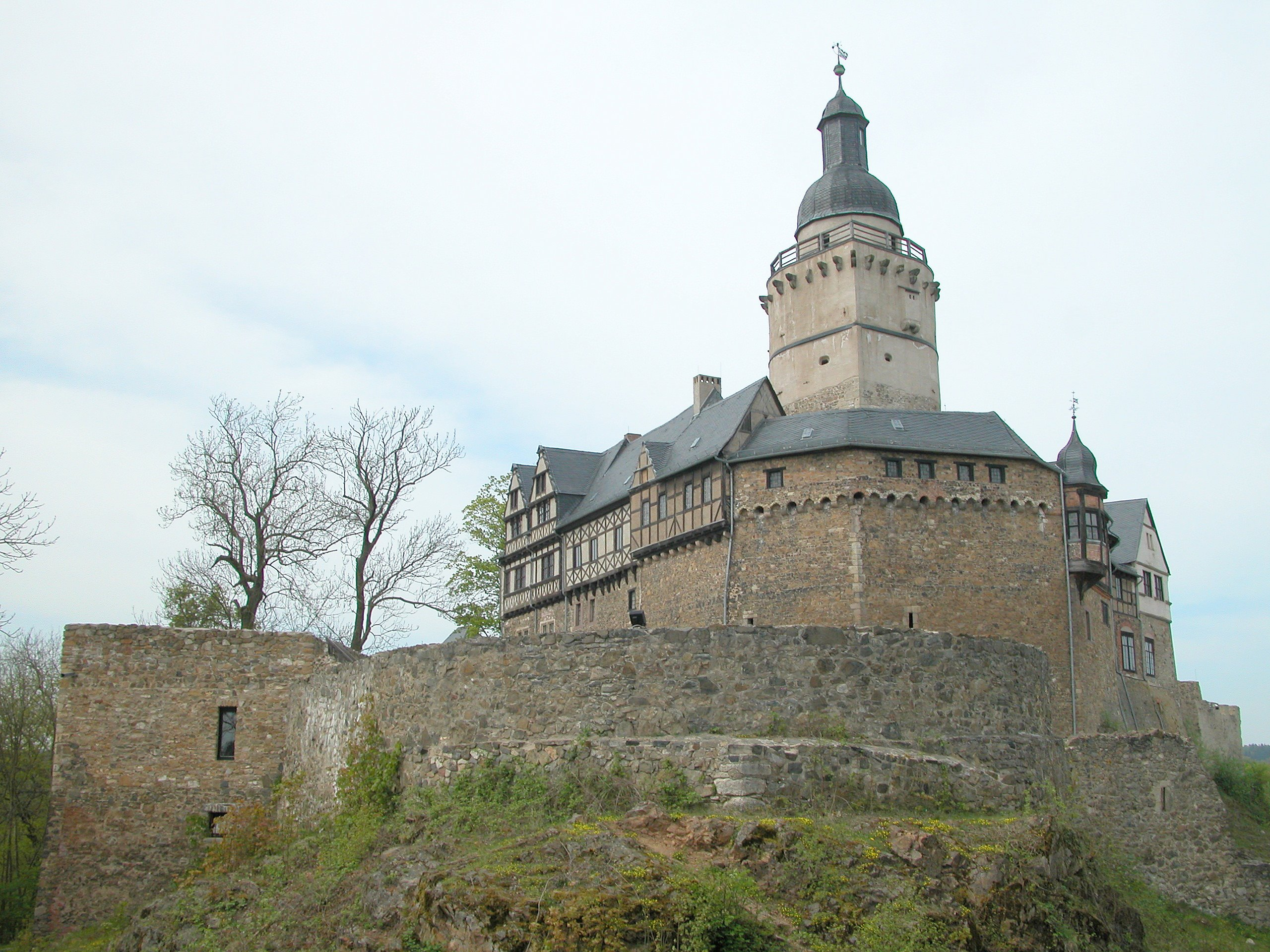 Falkenstein Castle in the Harz, Saxony-Anhalt, Germany